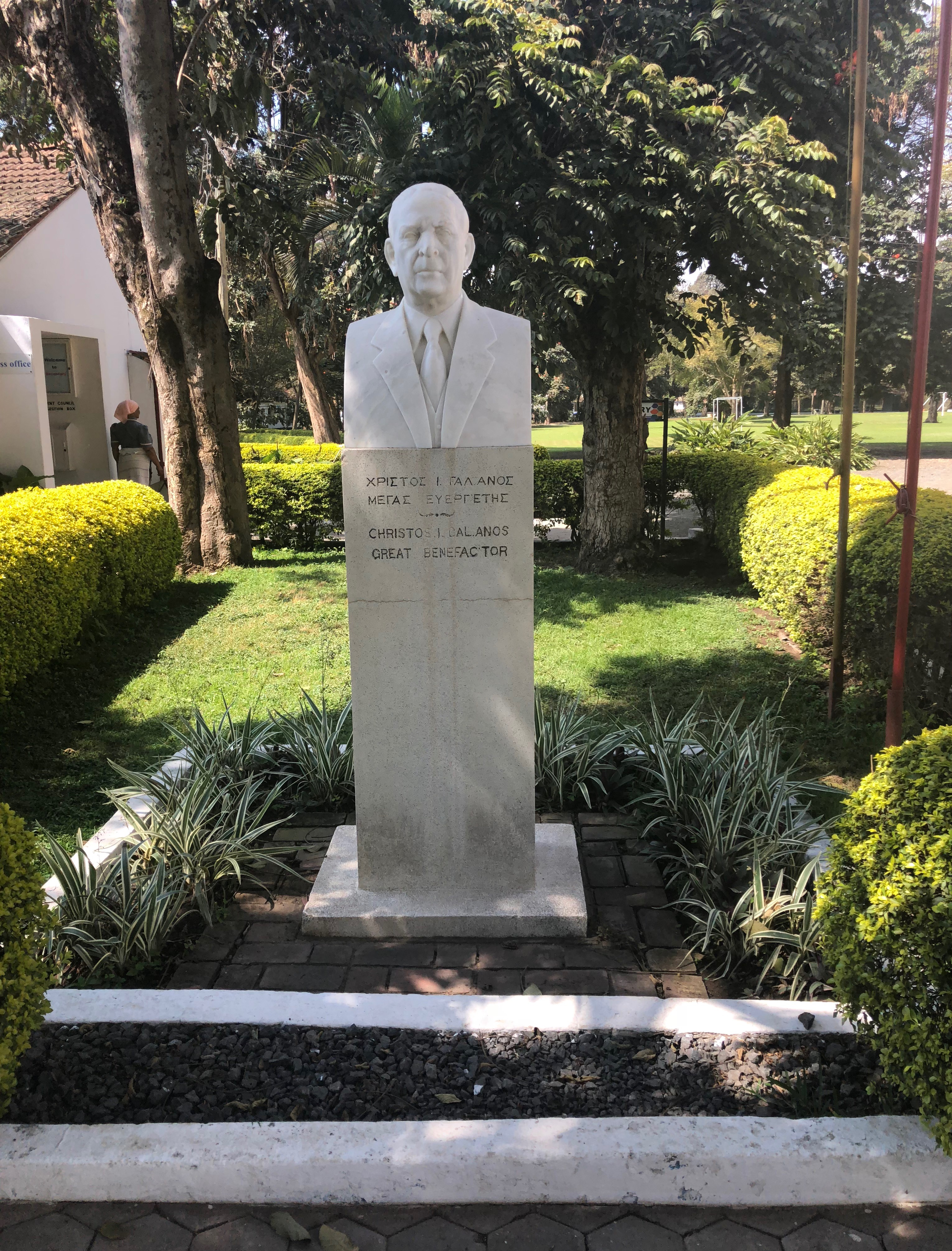 Christos Galanos. SCIS